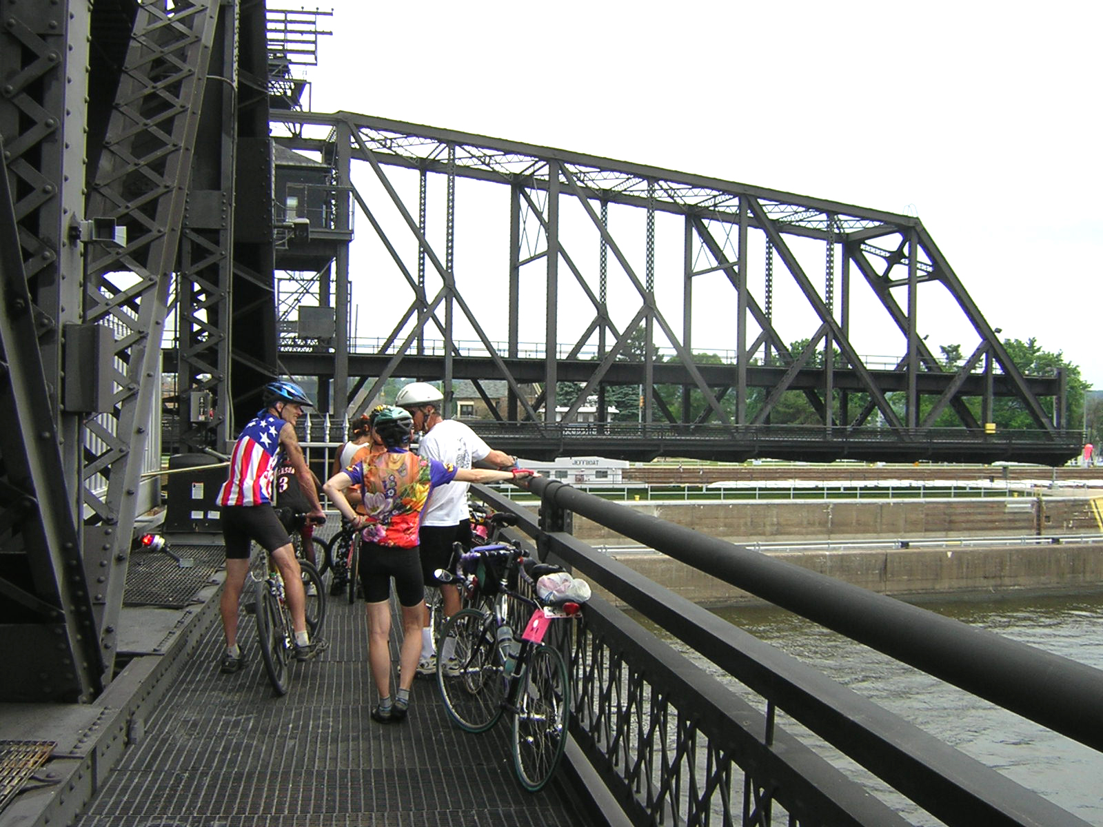 Cyclists on Arsenal Bridge waiting during an opening of the bridge's swing span. This is at the north end of the swing span, on the Iowa side, but the bridge spans the Mississippi River betweeen Rock Island, Illinois, and Davenport, Iowa.